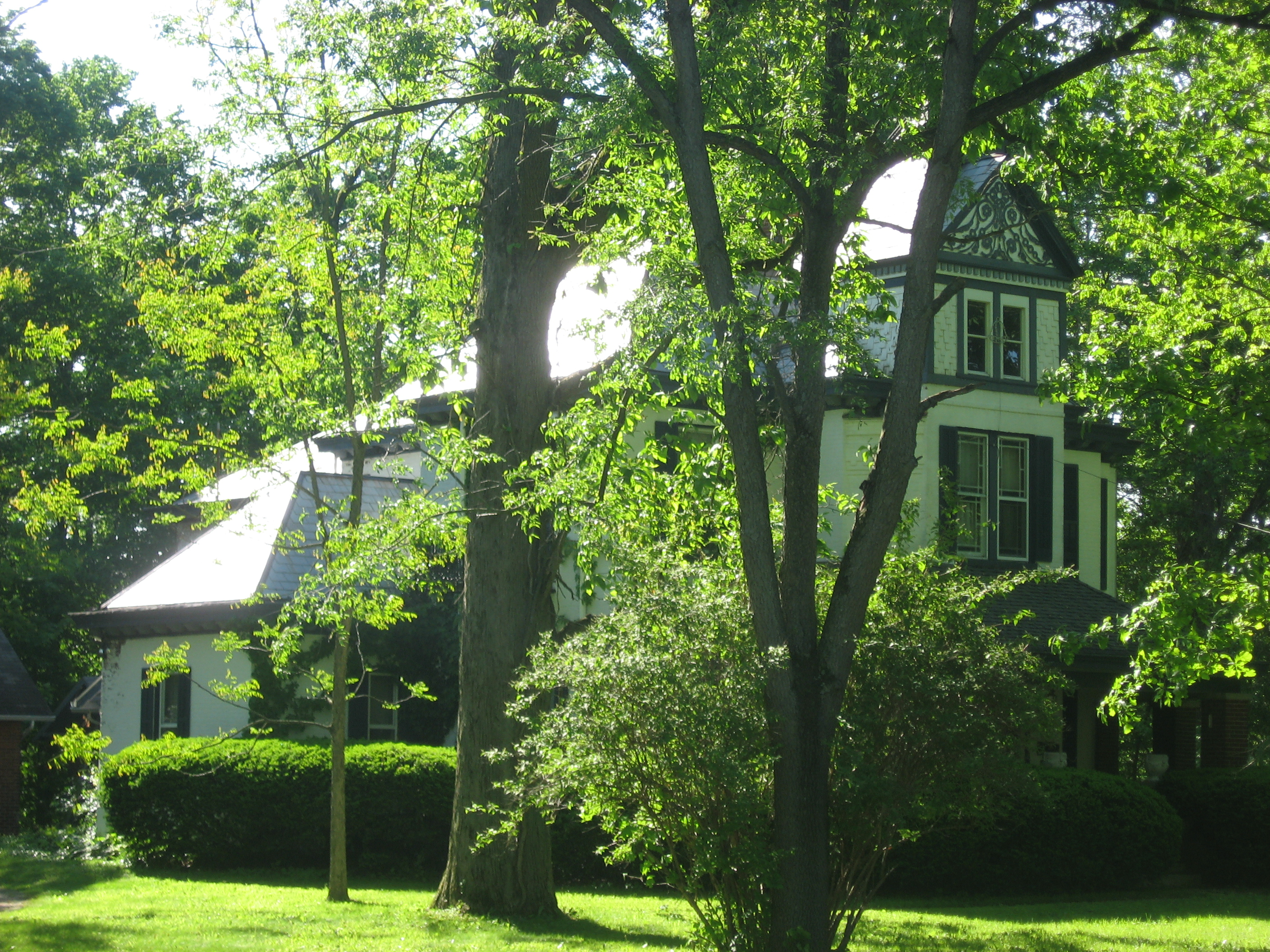 Front and northern side of the Leander Campbell House, located at 498 E. Broadway Street in Danville, Indiana, United States. Built in 1890, it is listed on the National Register of Historic Places.